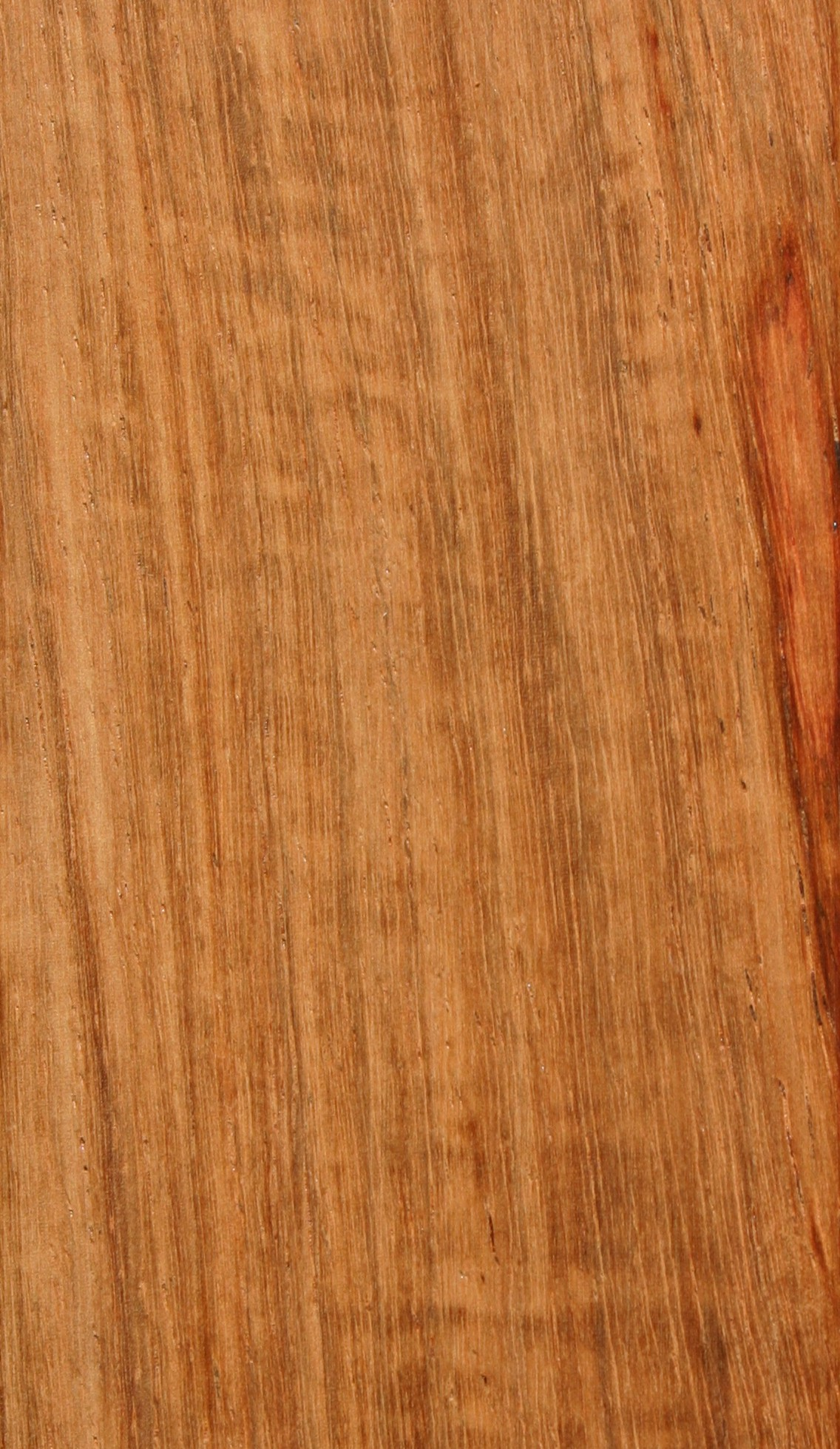 Pterocarpus angolensis timber sample